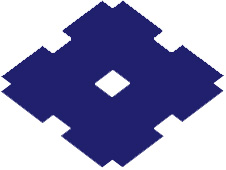 The logo of Sumitomo Electric Industries